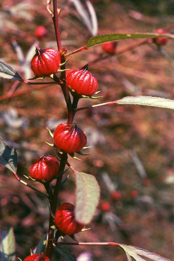 Hibiscus sabdariffa, Malvaceae - Kambodscha/Cambodia, Lamherkay Beach bei Sihanoukville